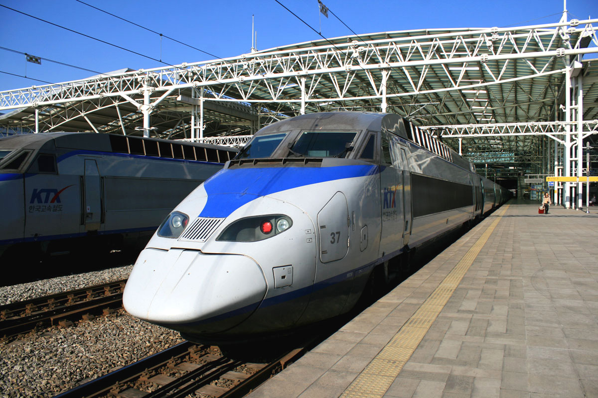 KTX-I in Seoul Station.